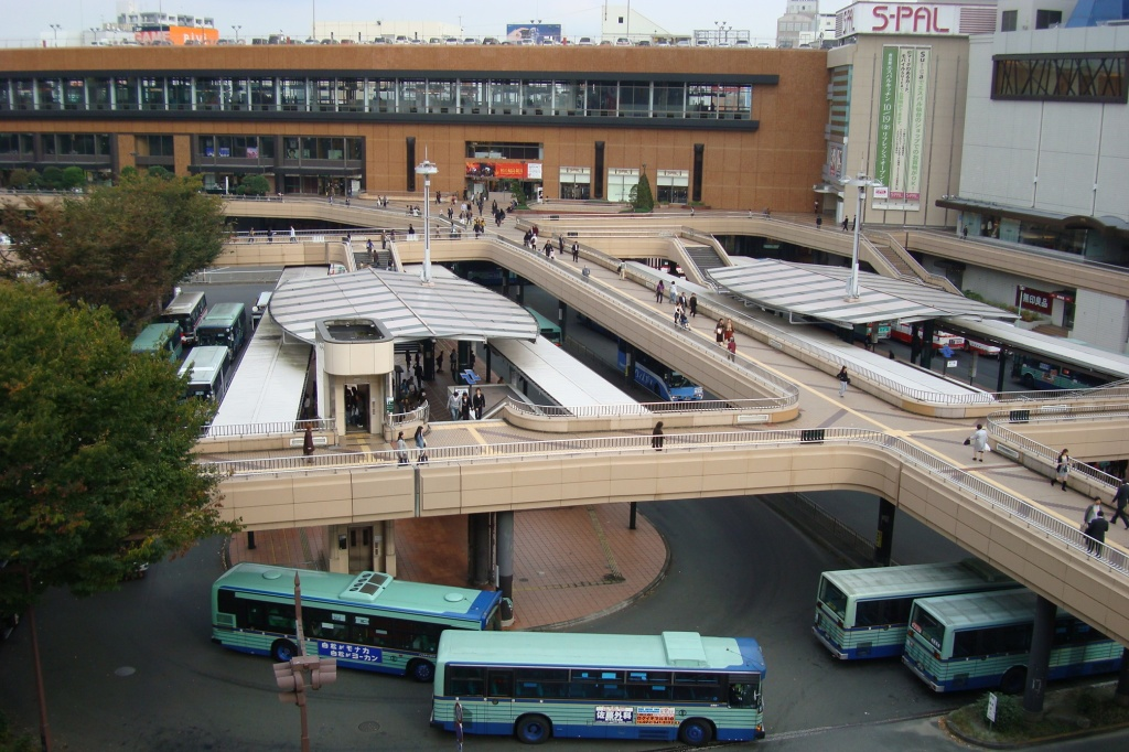 The Pedestrian-Deck, or pedestrian walkways, of Sendai Station, Japan